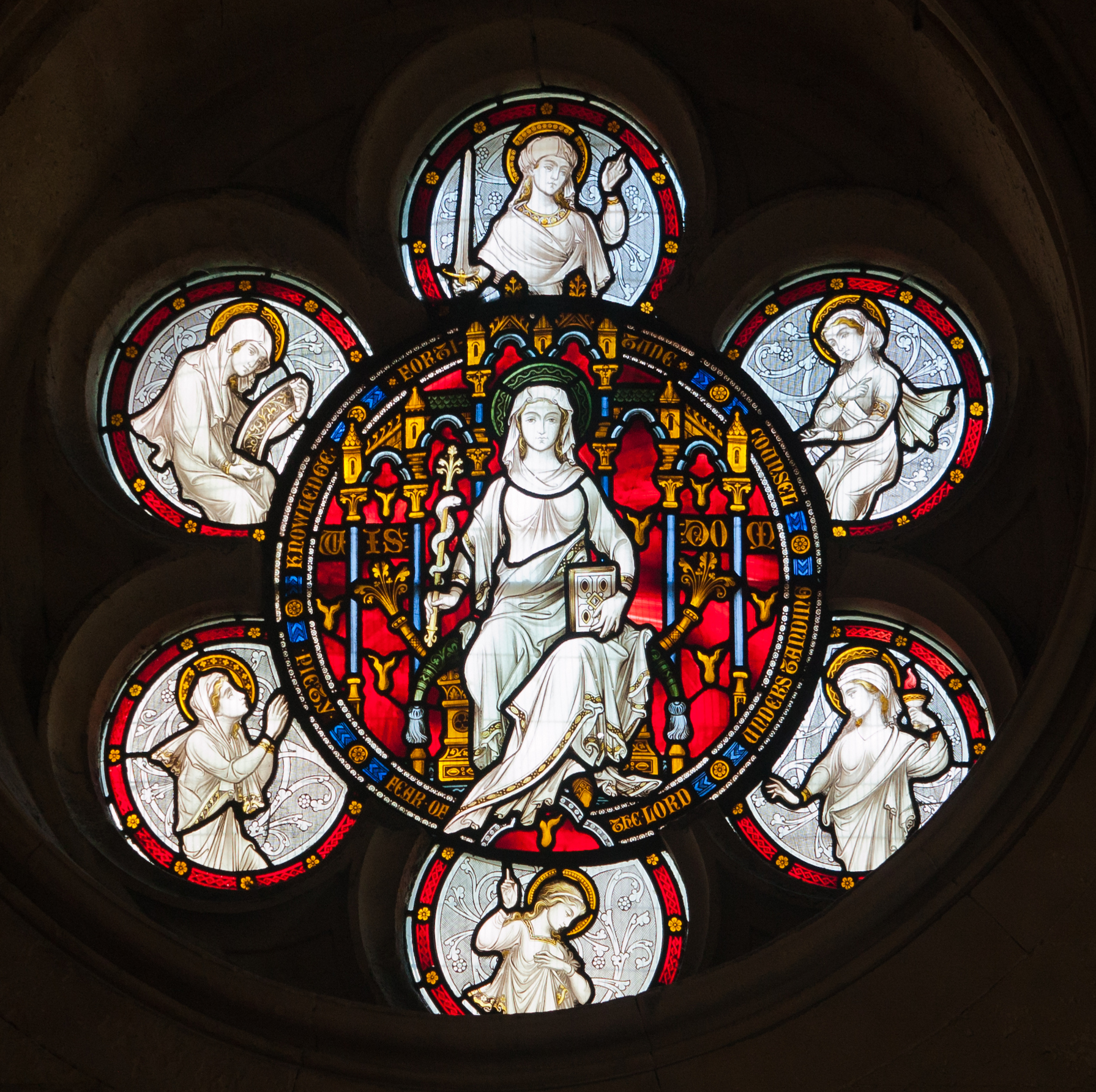 Left stained glass rose window in the east wall of the passage to the Synod Hall (now Dublinia), depicting the Seven gifts of the Holy Spirit according to Isaiah 11:2–3, i.e. wisdom (centre), fortitude (top) and then in clockwise direction: counsel, understanding, fear of the Lord, piety, and knowledge. Cartooned by John Hardman Powell (1827–1895), executed by Hardman & Co.